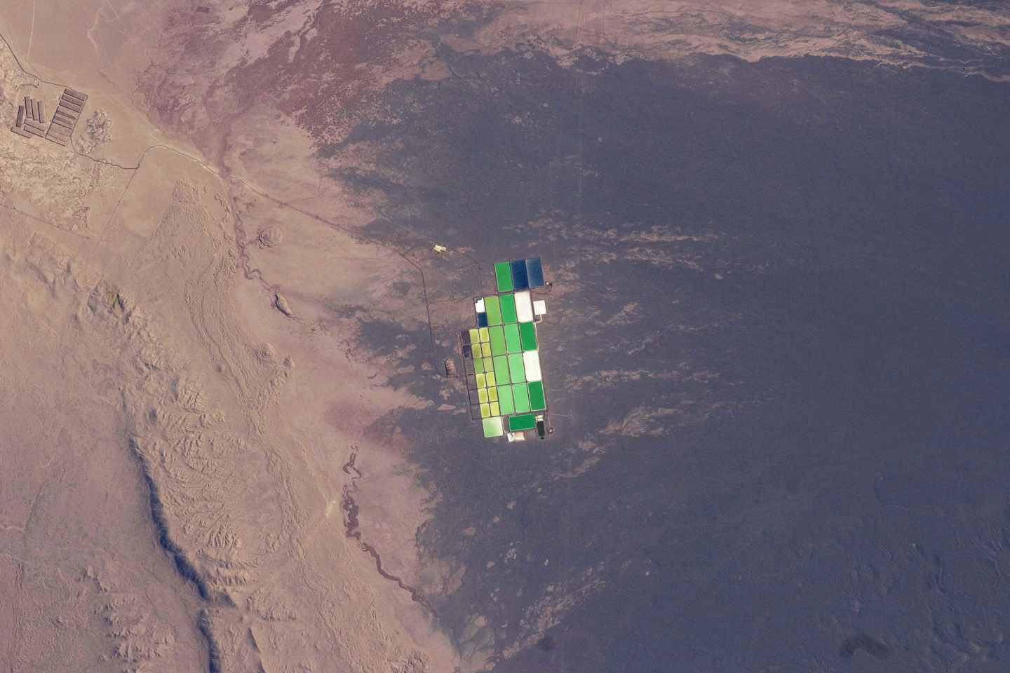 Brightly coloured solar evaporation (salt) ponds in a desert landscape give this astronaut photo an unreal quality. The ponds sit near the foot of a long alluvial fan in the Pampa del Tamarugal, the great hyper-arid inner valley of Chile’s Atacama Desert. The alluvial fan sediments are dark brown, and they contrast sharply with tan sediments of the Pampa del Tamarugal. Nitrates and many other minerals are mined in this region. A few extraction pits and ore dumps are visible at upper left. Iodine is one of the products from mining; it is first extracted by heap leaching. Waste liquids from the iodine plants are dried in the tan and brightly coloured evaporation ponds to crystallize nitrate salts for collection. Coordinates: -20.946162, -69.514961